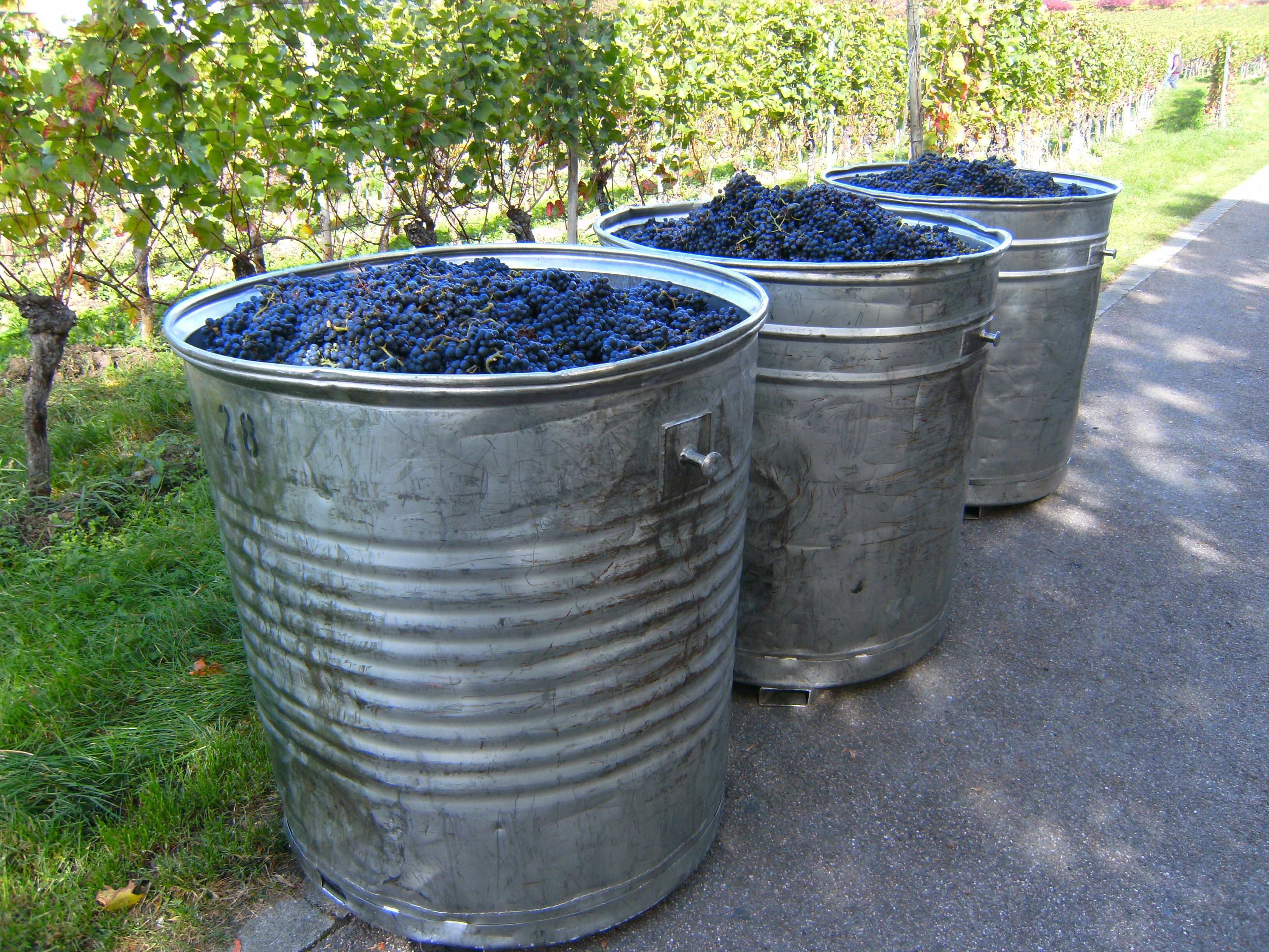 Hagnau am Bodensee, Germany: Harvesting and storing the grapes at october, 6 2015.